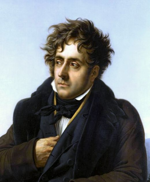 François-René de Chateaubriand